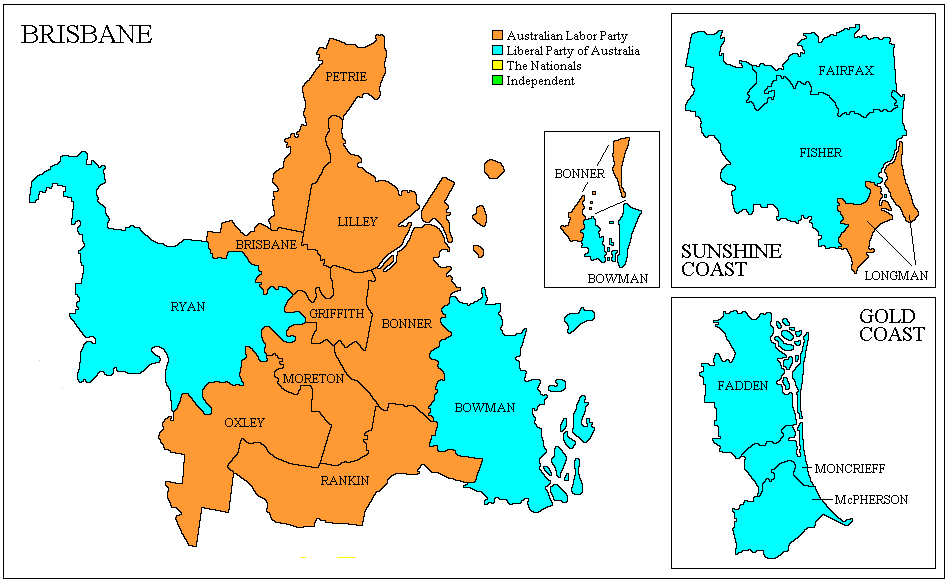 map of brisbane electorates